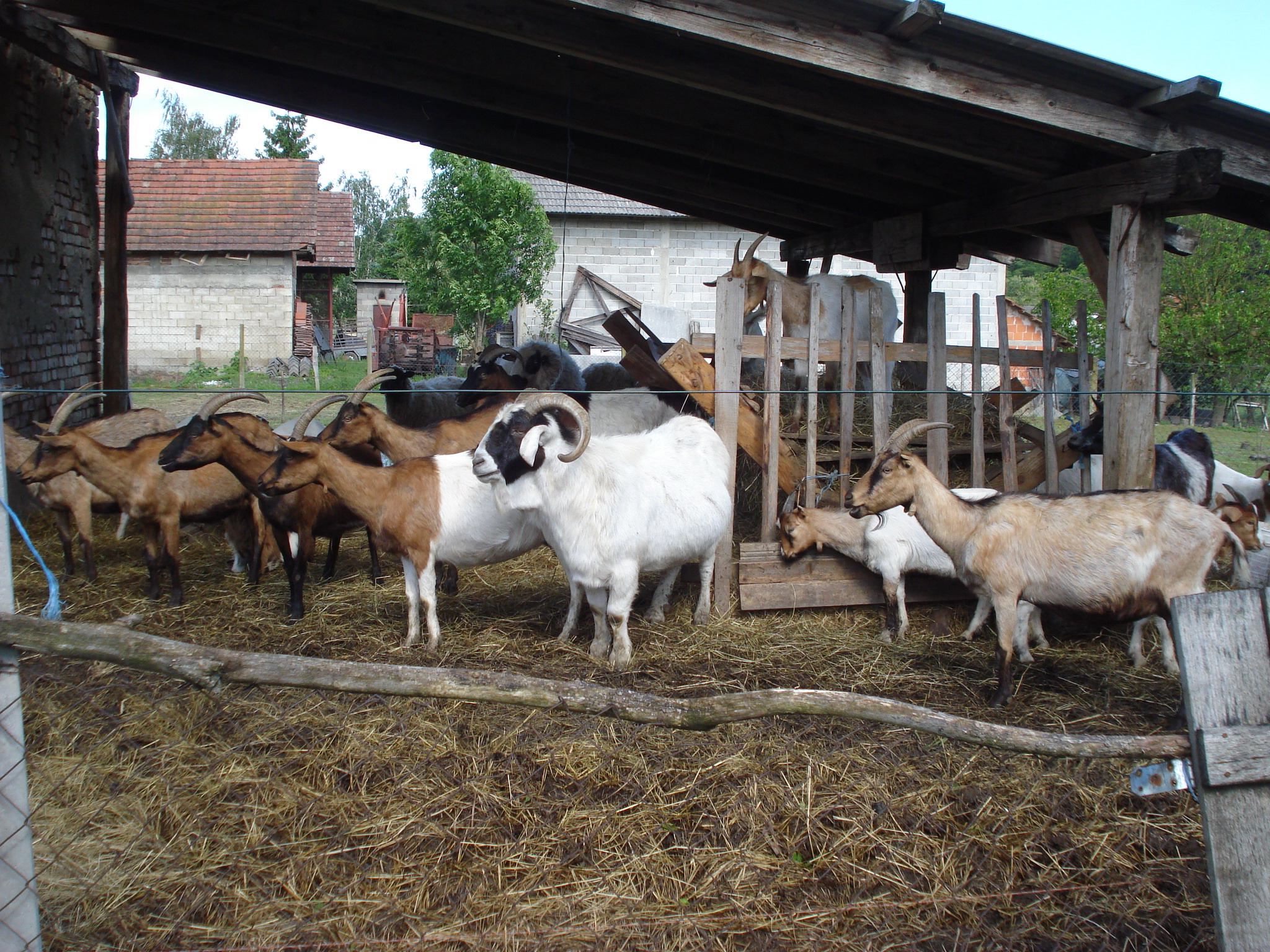 Goats on a farm in Polonje vilage at Sveti Ivan Zelina, CroatiaHrvatski: Koze na farmi u naselju Polonje kod Svetog Ivana Zeline, Hrvatska